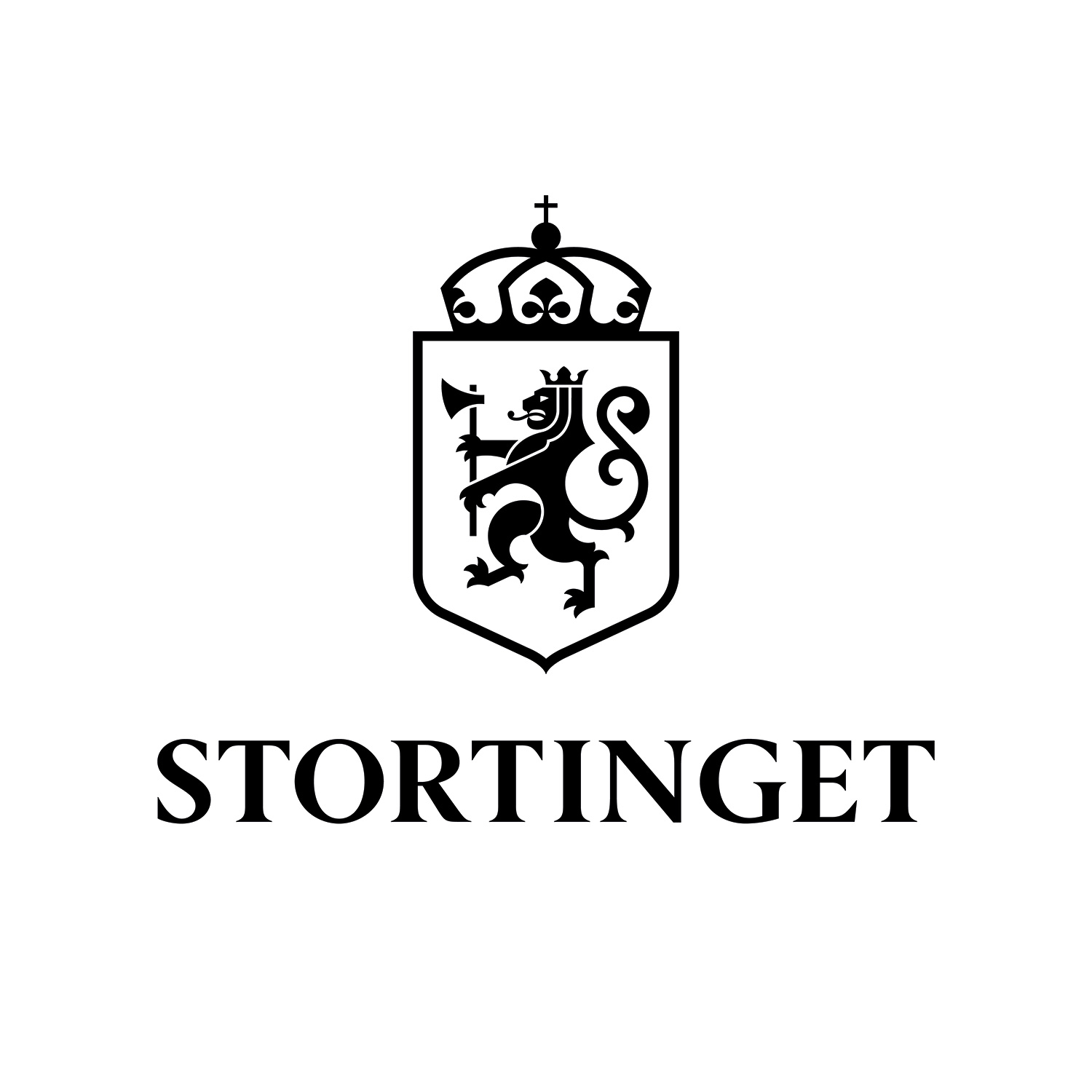 Logo of Stortinget (In use from October 1, 2016)